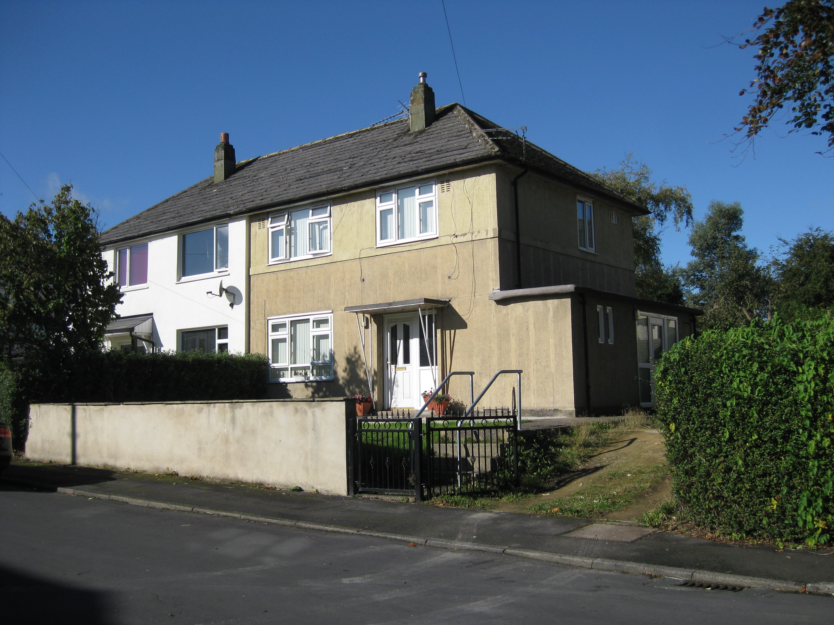 Concrete semi-detached council houses, Laith Road, Ireland Wood, Leeds LS16